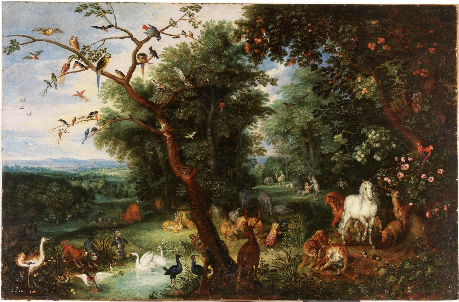 El Paraíso Terrenal or Earthly Paradise by Brueghel el Joven, Pieter (Copy after Brueghel the Elder, Jan (Jan 'Velvet' Brueghel)).